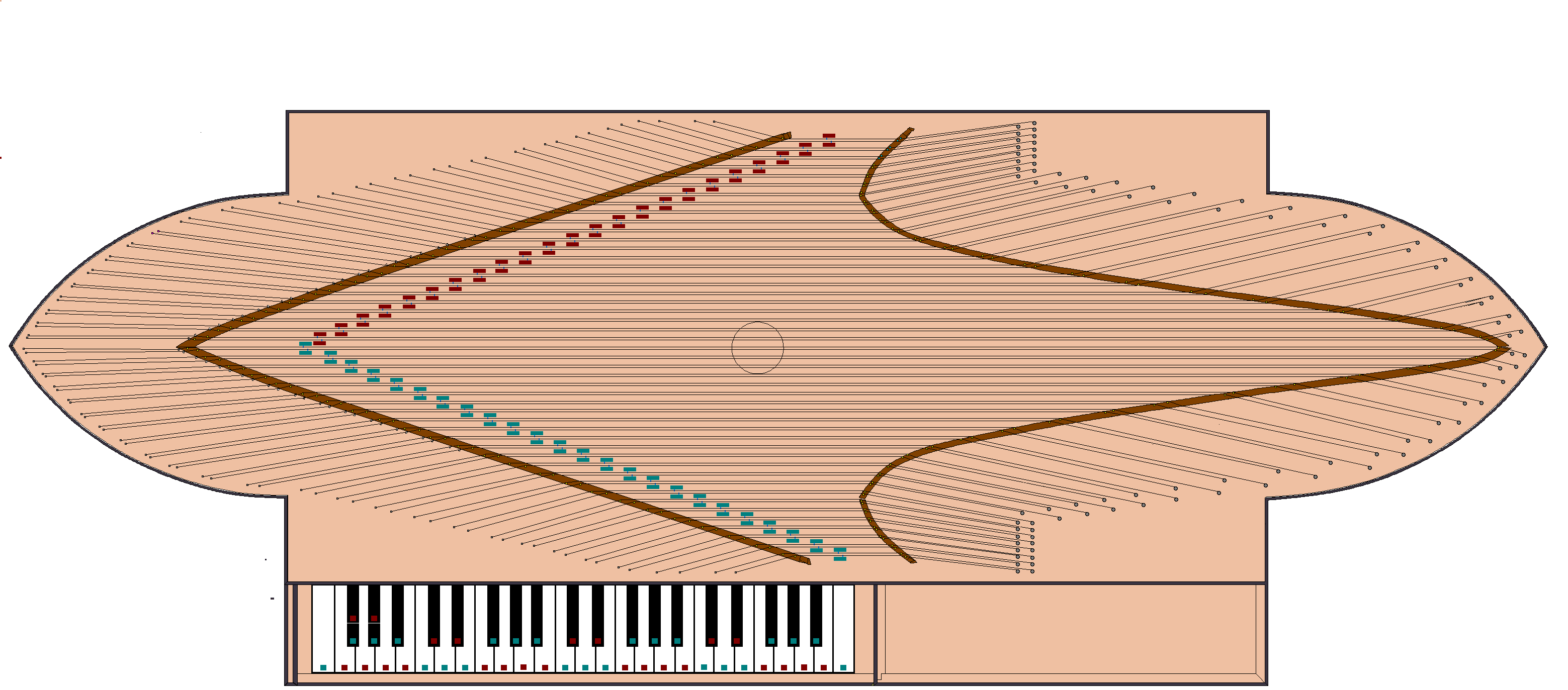 Diagram of the layout of the oval spinet of Bartolomeo Cristofori. Made with Microsoft Paint by Opus33, after a monochrome original by Tony Chinnery. Email permission has been obtained from Mr. Chinnery to post a colour version of his work.